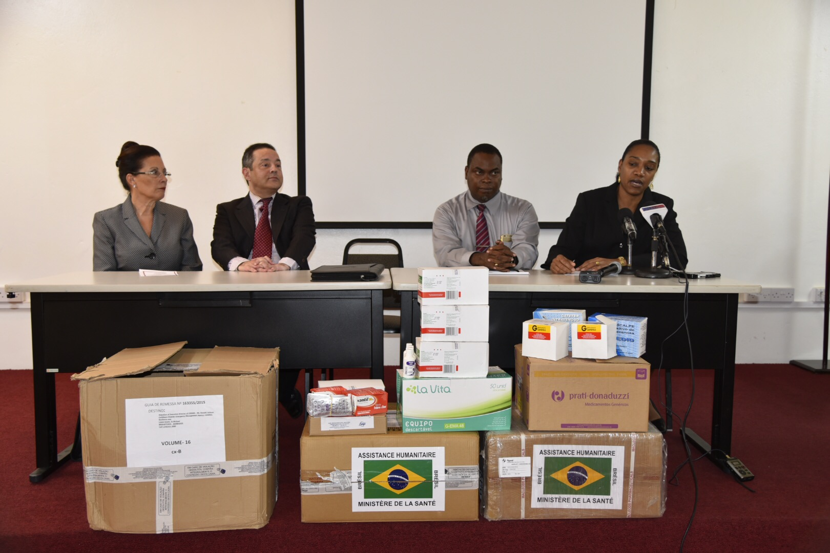 Brasil donates medical supplies to Dominica following passage of Tropical Storm Erika